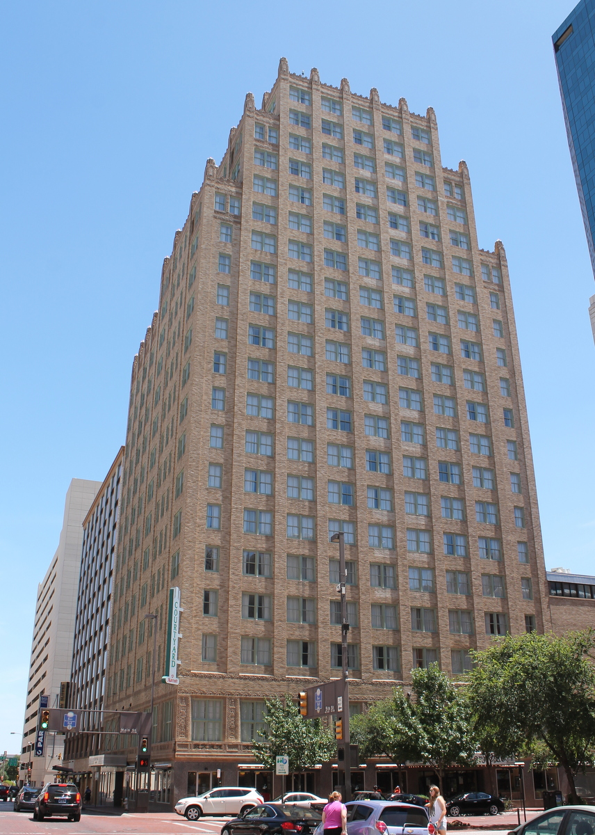 Blackstone Hotel in Fort Worth, Texas